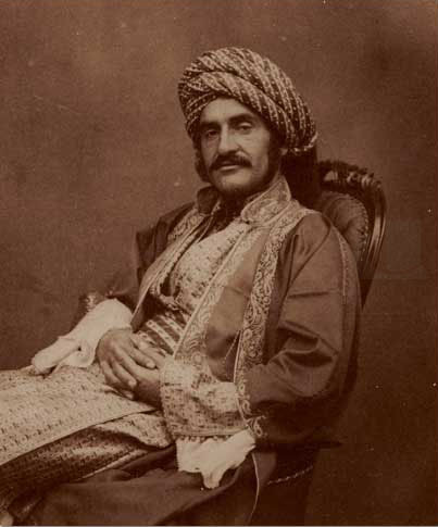 "Mr. Hormuzd Rassam vide Layard's Nineveh", a portrait study of Hormuzd Rassam.